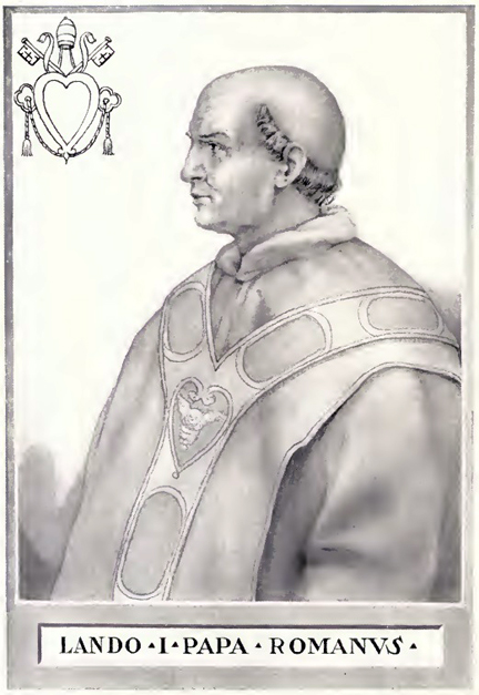 This illustration is from The Lives and Times of the Popes by Chevalier Artaud de Montor, New York: The Catholic Publication Society of America, 1911. It was originally published in 1842.